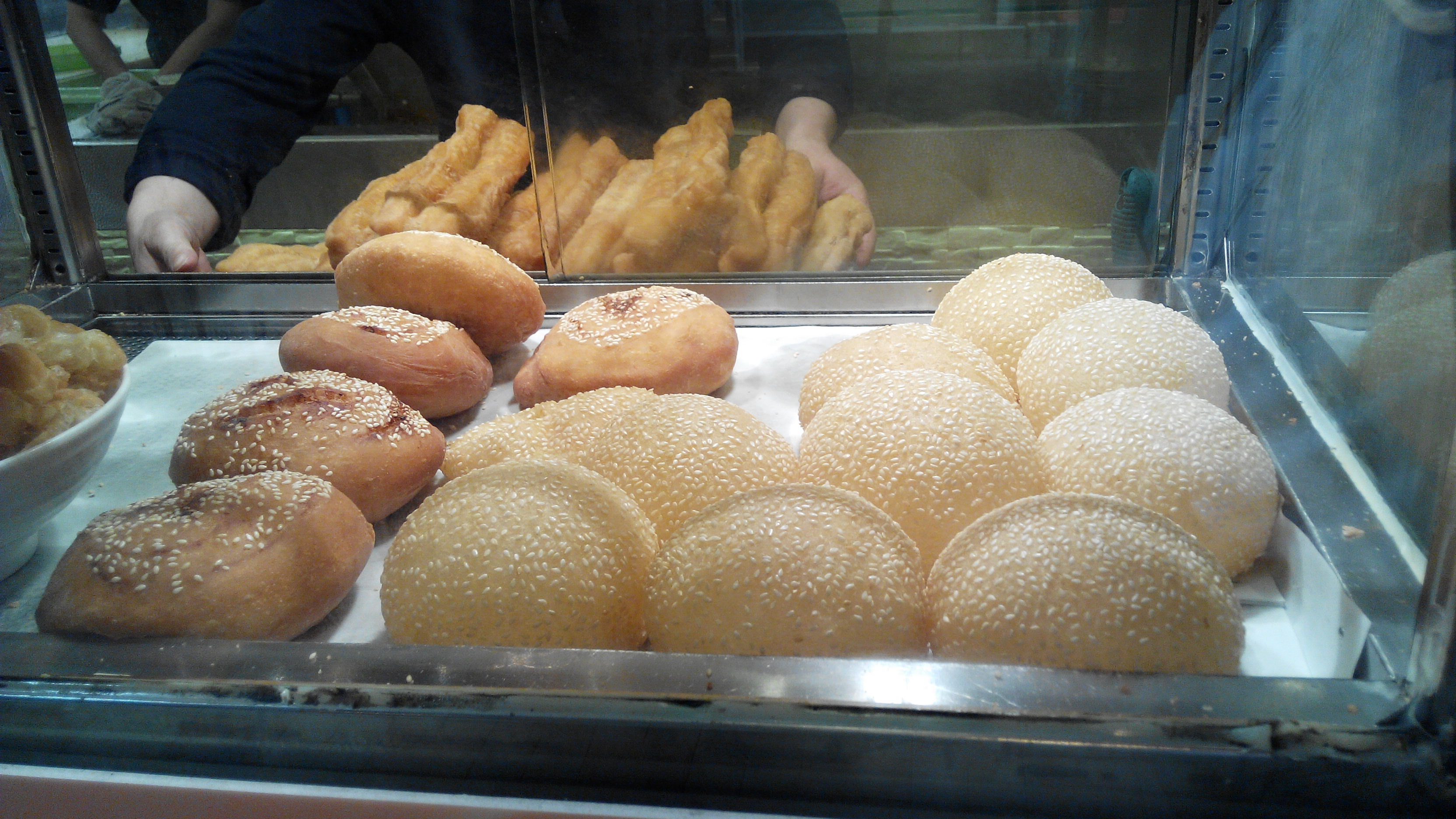 North Point Fortress Hill 北角 炮台山 英皇道175號 Congee Wonderland restaurant Fuk Yuen Street night